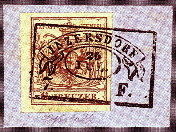 Stamp of KK Austria, first issue 1850, 6 kreuzer. Decorated cancellation at INZERSDORF (near Vienna). Mueller type RyB-ROeh (25x15 P).